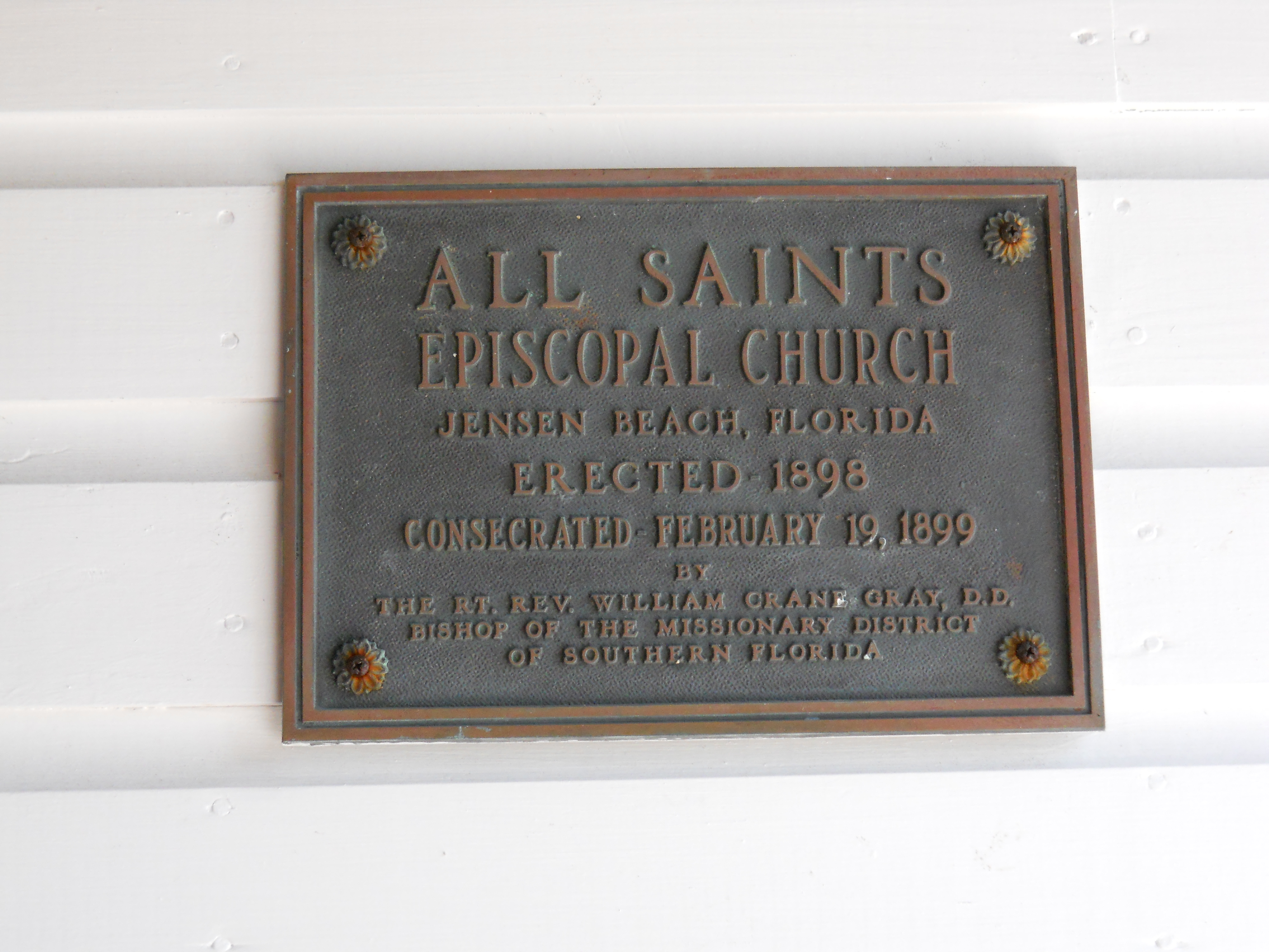 All Saints Episcopal Church, Jensen Beach. Florida: Plaque commemorating its consecration in 1899